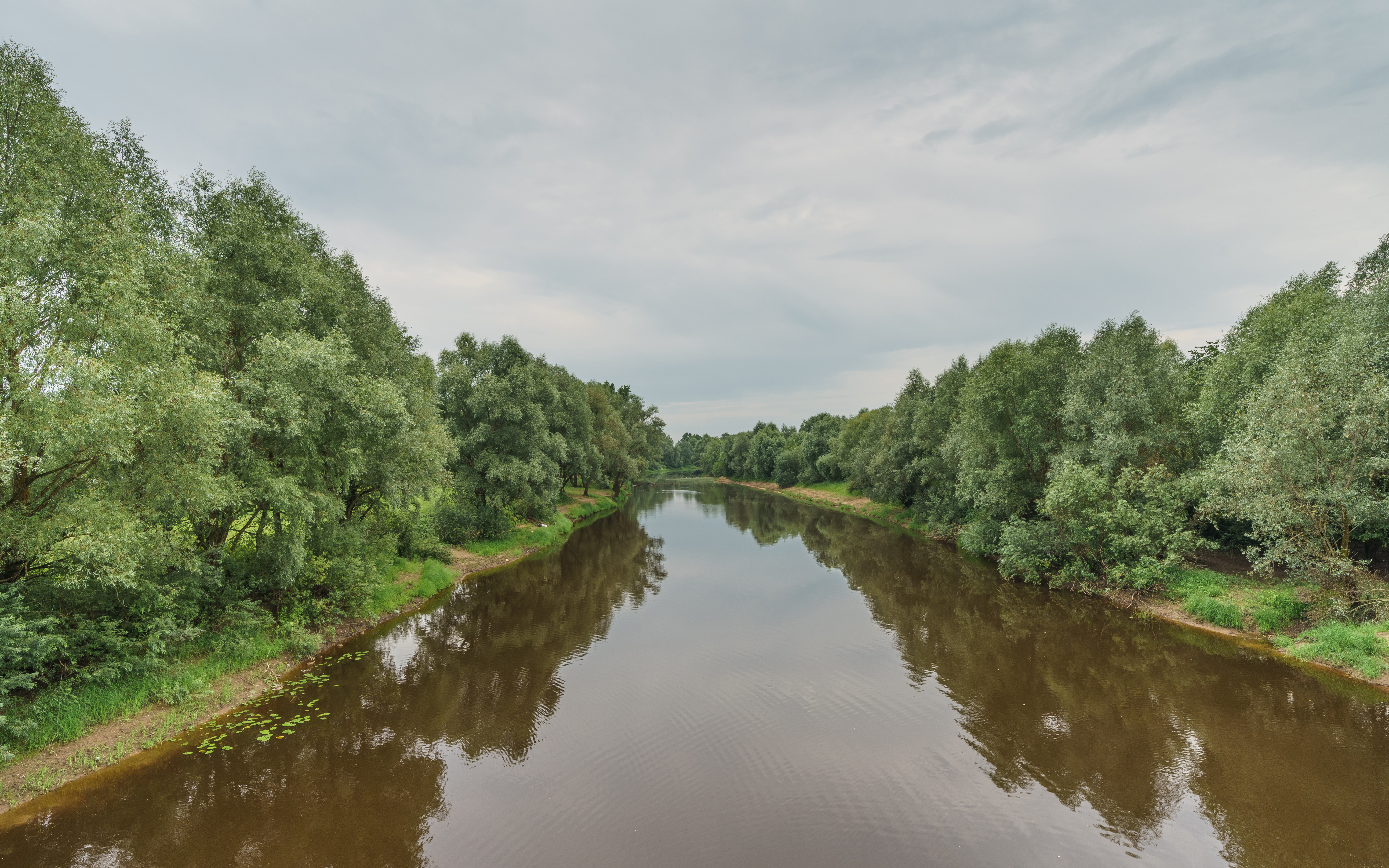 Porusiya River in Staraya Russa, Novgorod Oblast, Russia